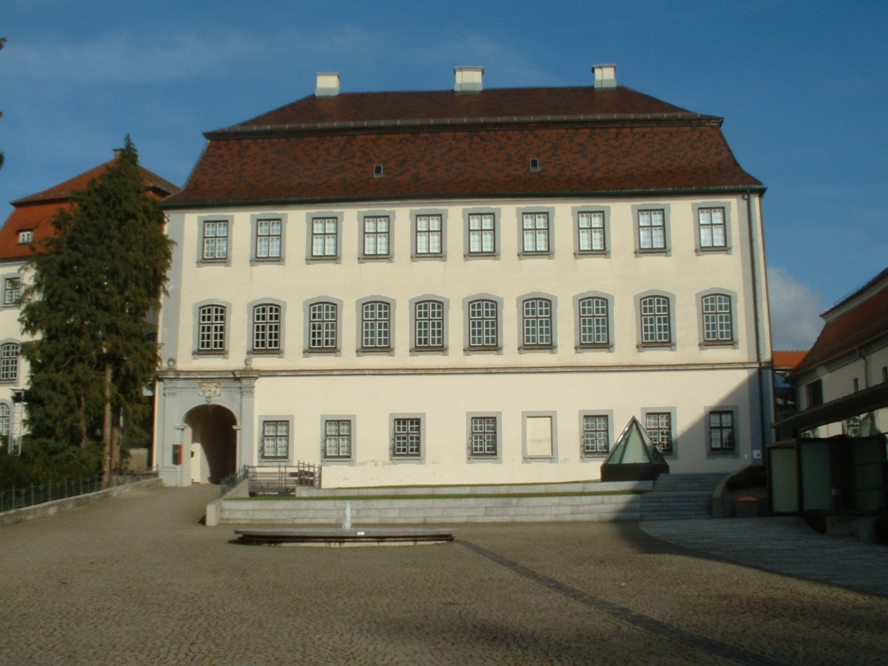 Castle Grosslaupheim en Laupheim, Germany